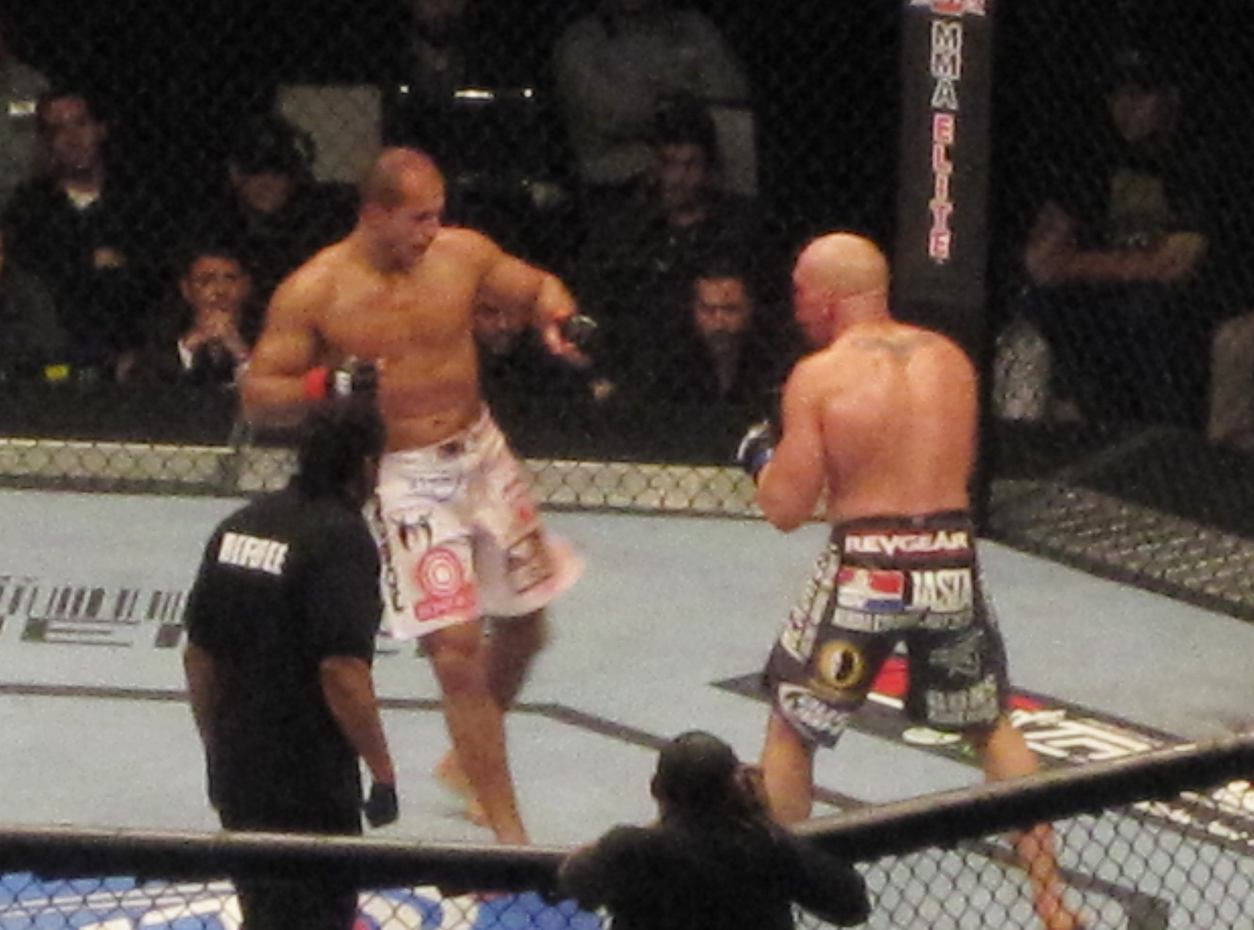 Picture of fighters Shane Carwin and Junior Dos Santos facing off at UFC 131 in Vancouver, Canada.